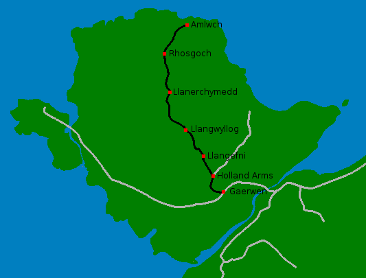 A map of Anglesey showing the route and stations of the Anglesey Central railway, as well as the route of other nearby railway lines